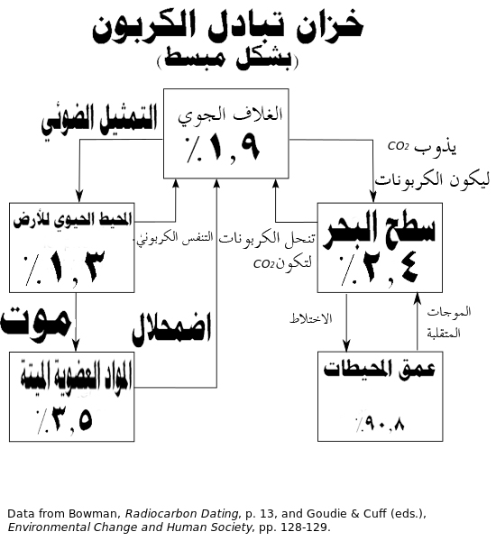 ؤشقلاخى